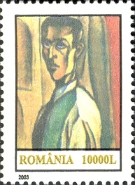 Stamps of Romania, 2003